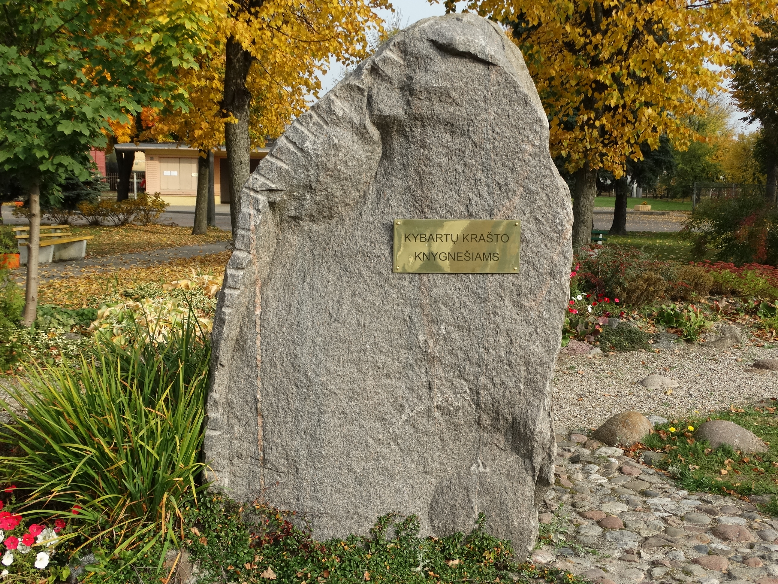 Stone to book smugglers, Kybartai, Lithuania